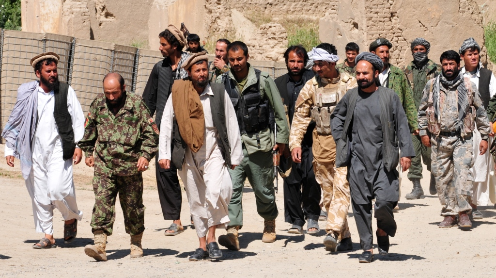 The following is the author's description of the photograph quoted directly from the photograph's Flickr page. "Taliban insurgents turn themselves in to Afghan National Security Forces at a forward operating base in Puza-i-Eshan. Their defections come in the midst of Operation Taohid II, and Afghan-led operation designed to defeat the insurgency, provide humanitarian supplies to the people, and enable development projects in the area. (Photo by ISAF Public Affairs) "